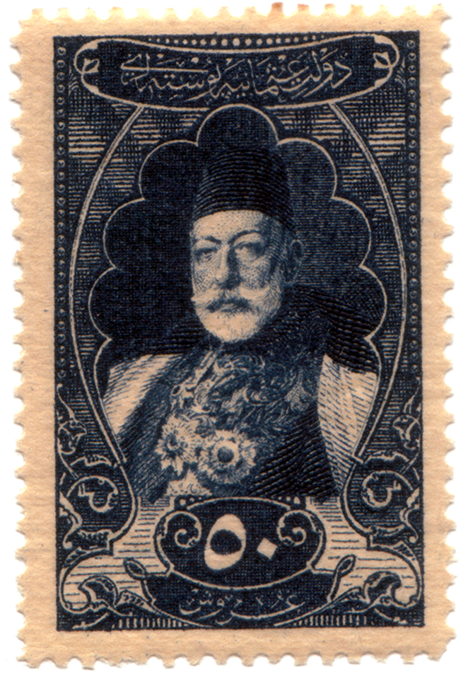 A ottoman stamp with the portrait of Sultan Mehmed V.